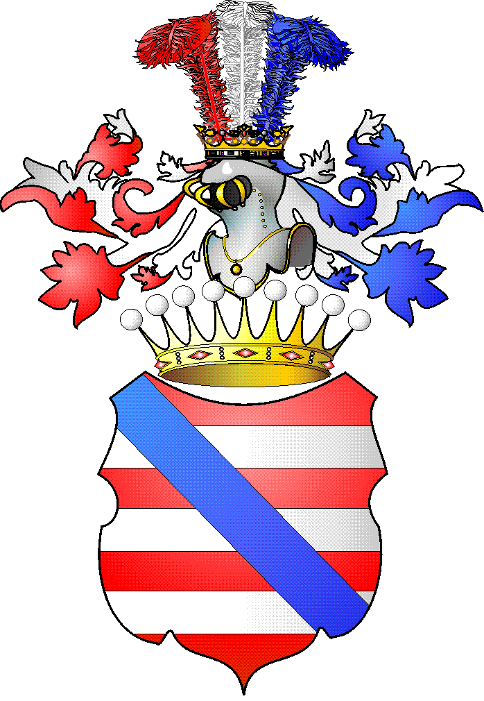 CoA of family Broel-Plater